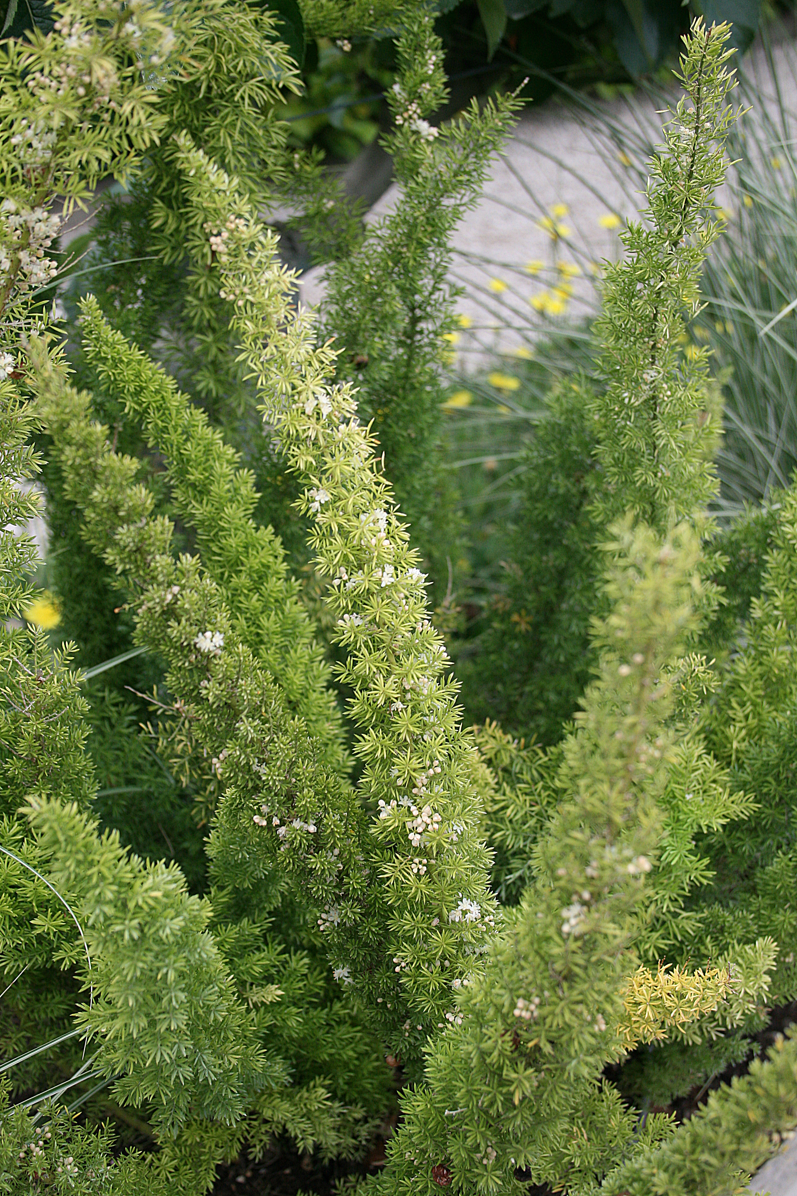 Asparagus fern